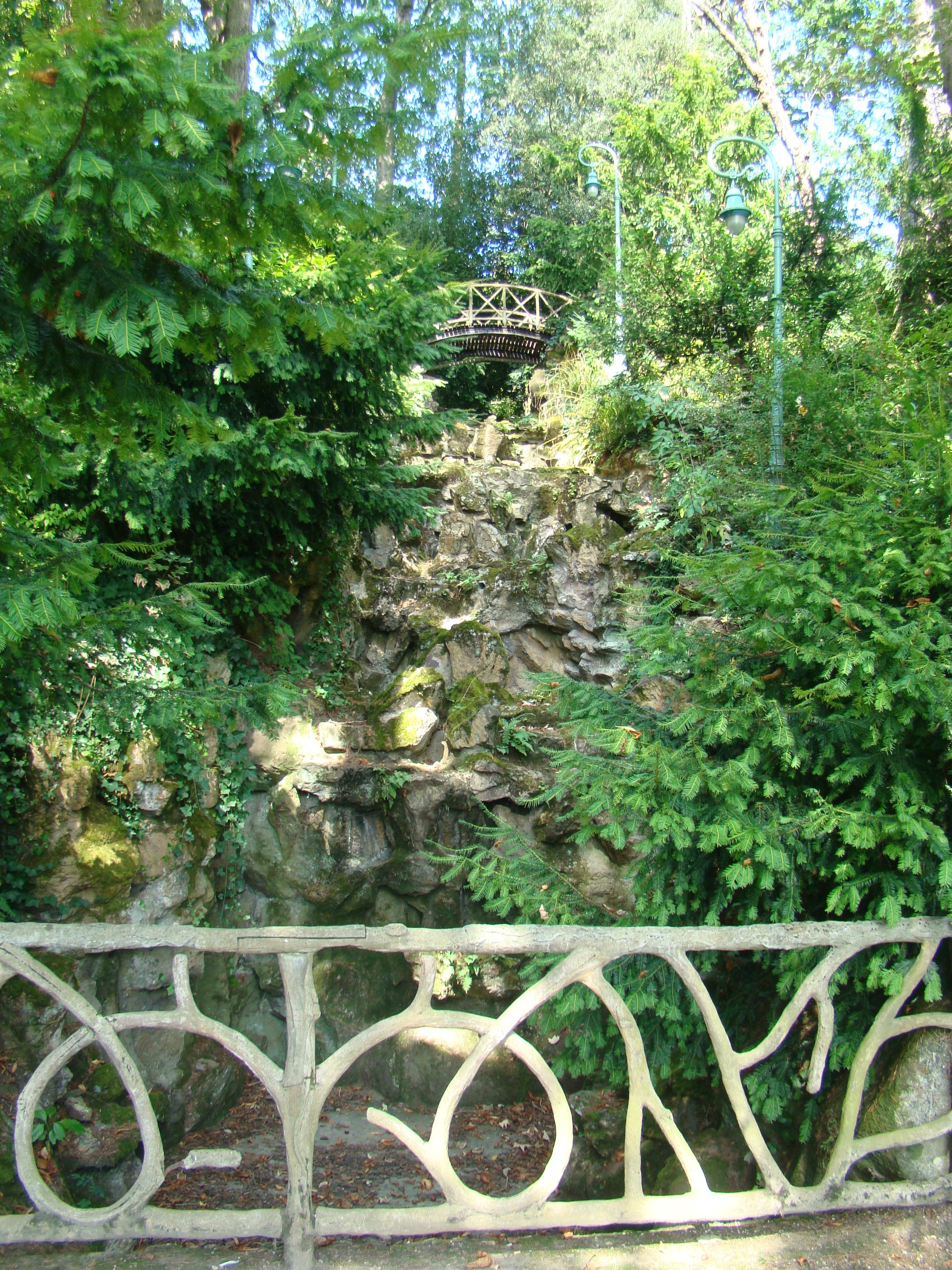 Dry waterfall in Park of Thabor.